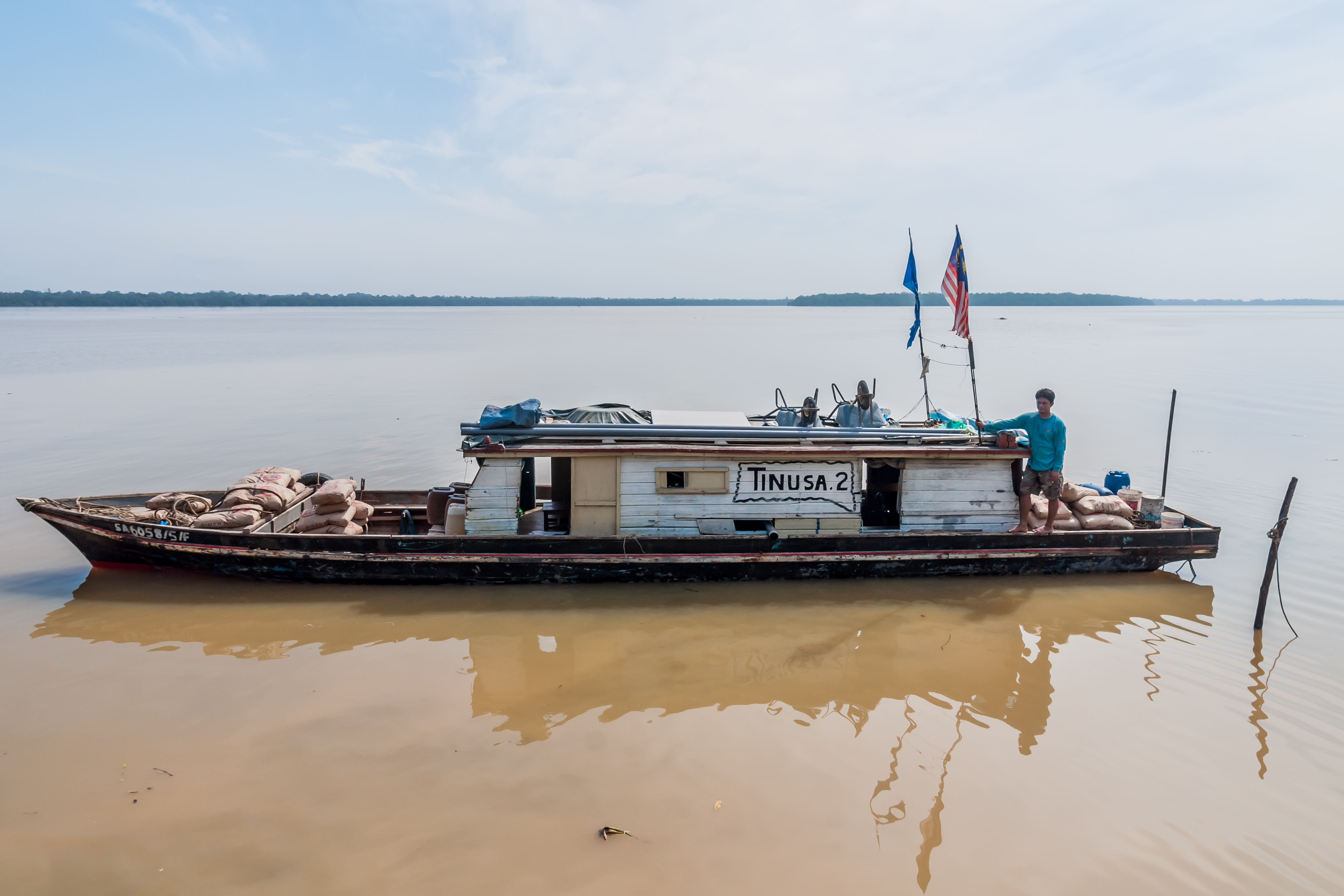 Beluran, Sabah: Ship with construction materials at the Sungai Labuk Estuary in Beluran, leaving for an upstream destination